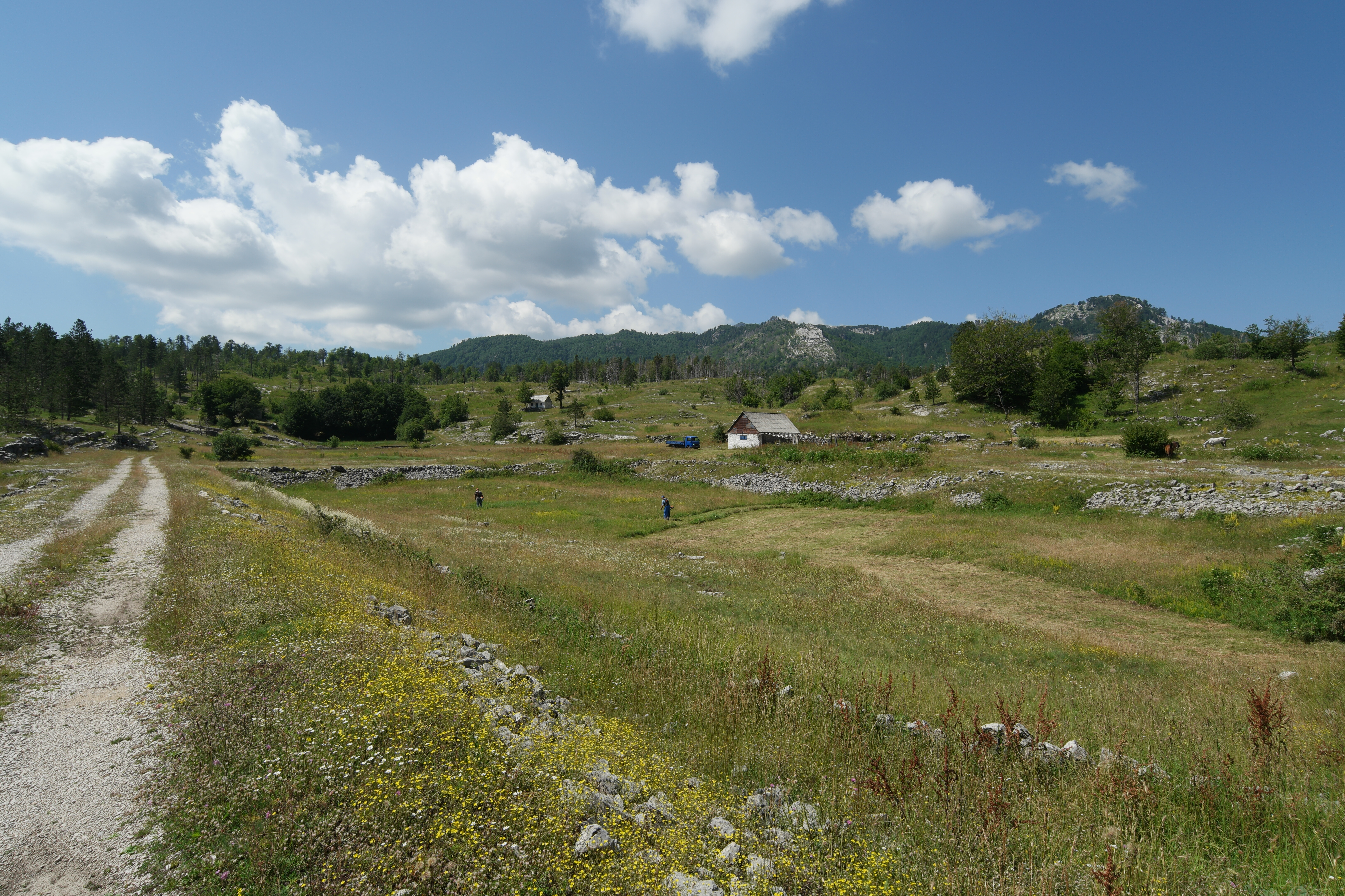 Heuernte in der Bijela gora - extensive Nutzung für Haltung von Buša